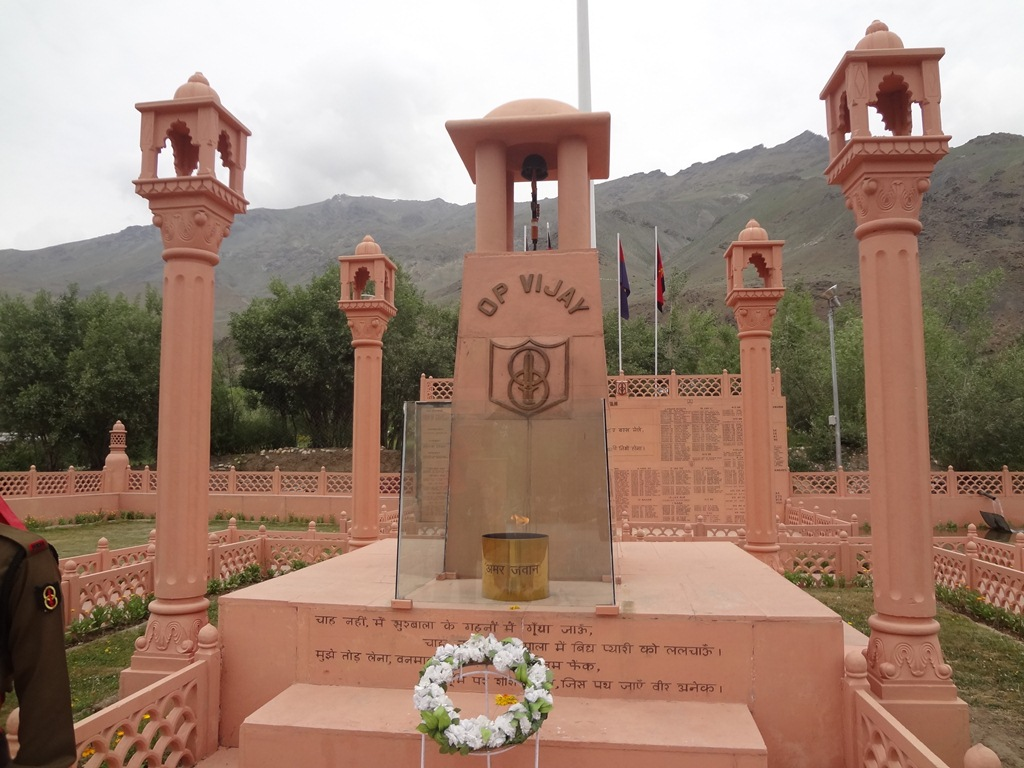 Kargil War Memorial